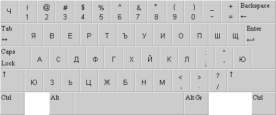 This the Phonetic keyboard layout used for typing Cyrillic letters in Bulgarian. Although not standard it is equally or more used than the standard BDS layout. I personally created this file using a template image from Wikipedia: Keyboard_Layout.png